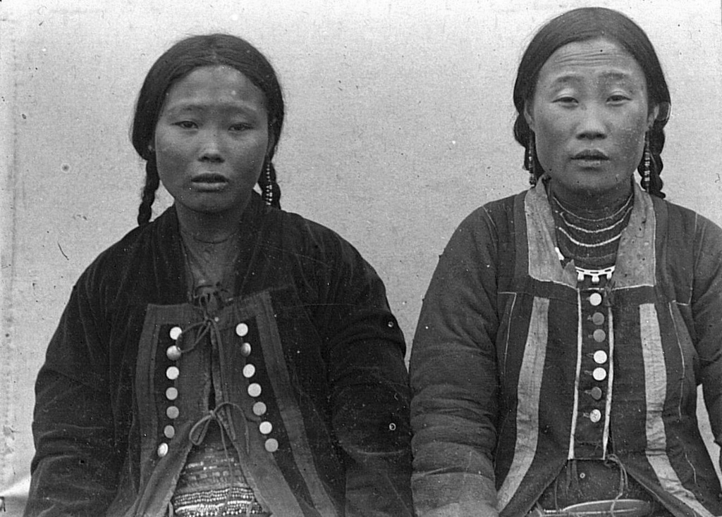 Yukaghir woman.